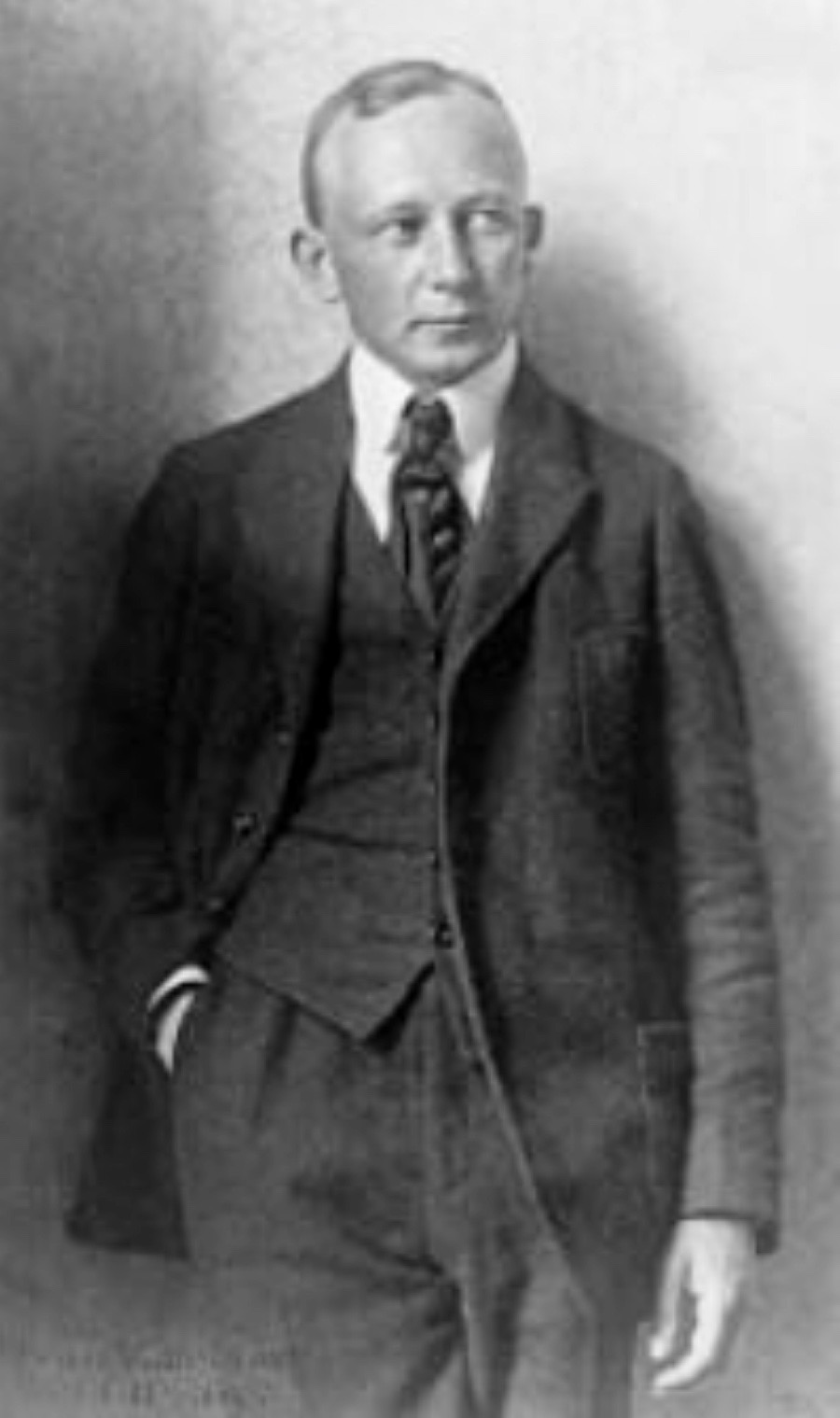 Hans Freyer (1887–1969), German historian, philosopher and sociologist